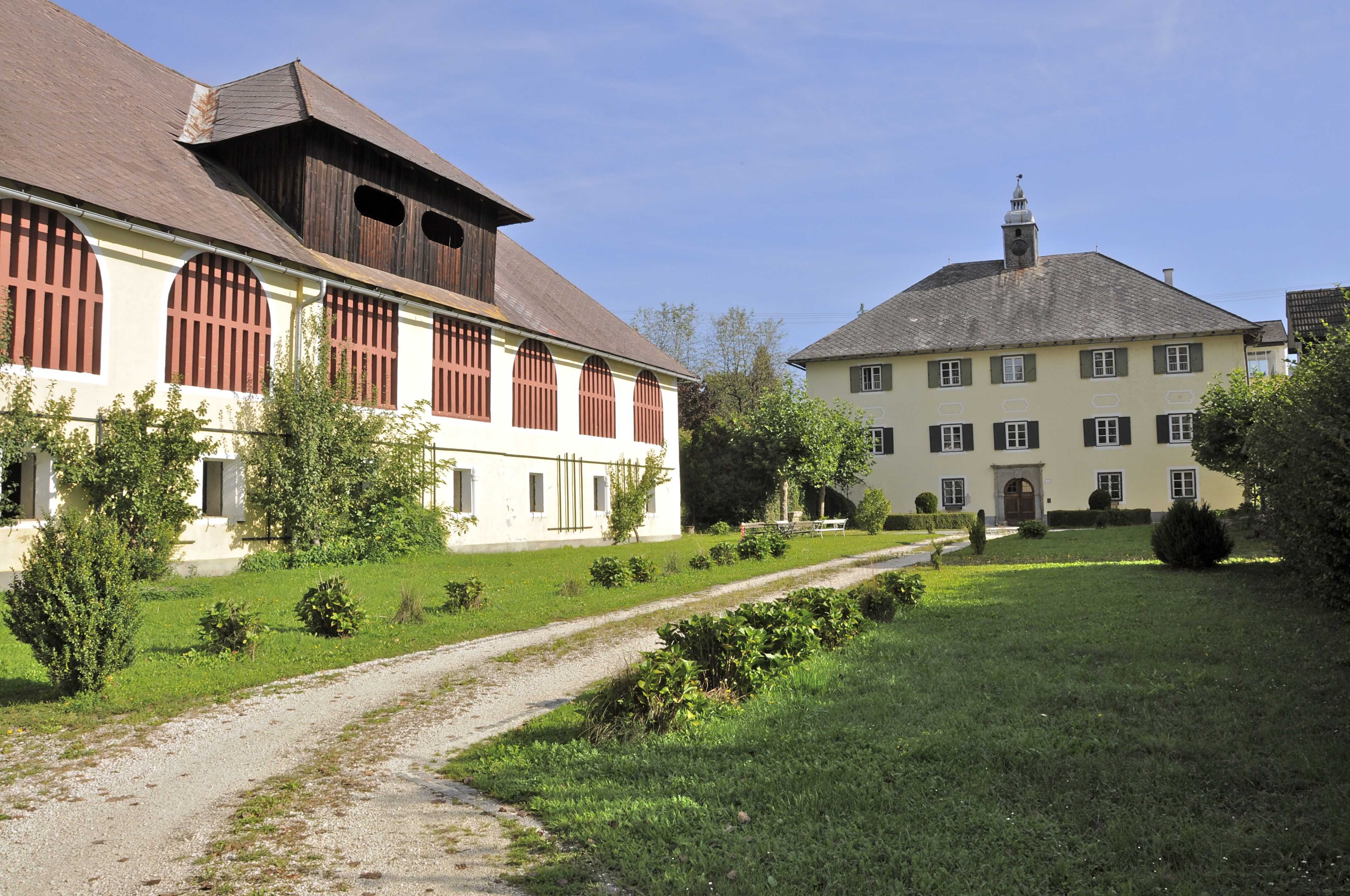 Castle at Eppersdorf #1, municipality Brückl, district Sankt Veit an der Glan, Carinthia / Austria / EU